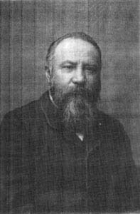 A public domain photograph of B. Malon, presumably taken in the 1880s.